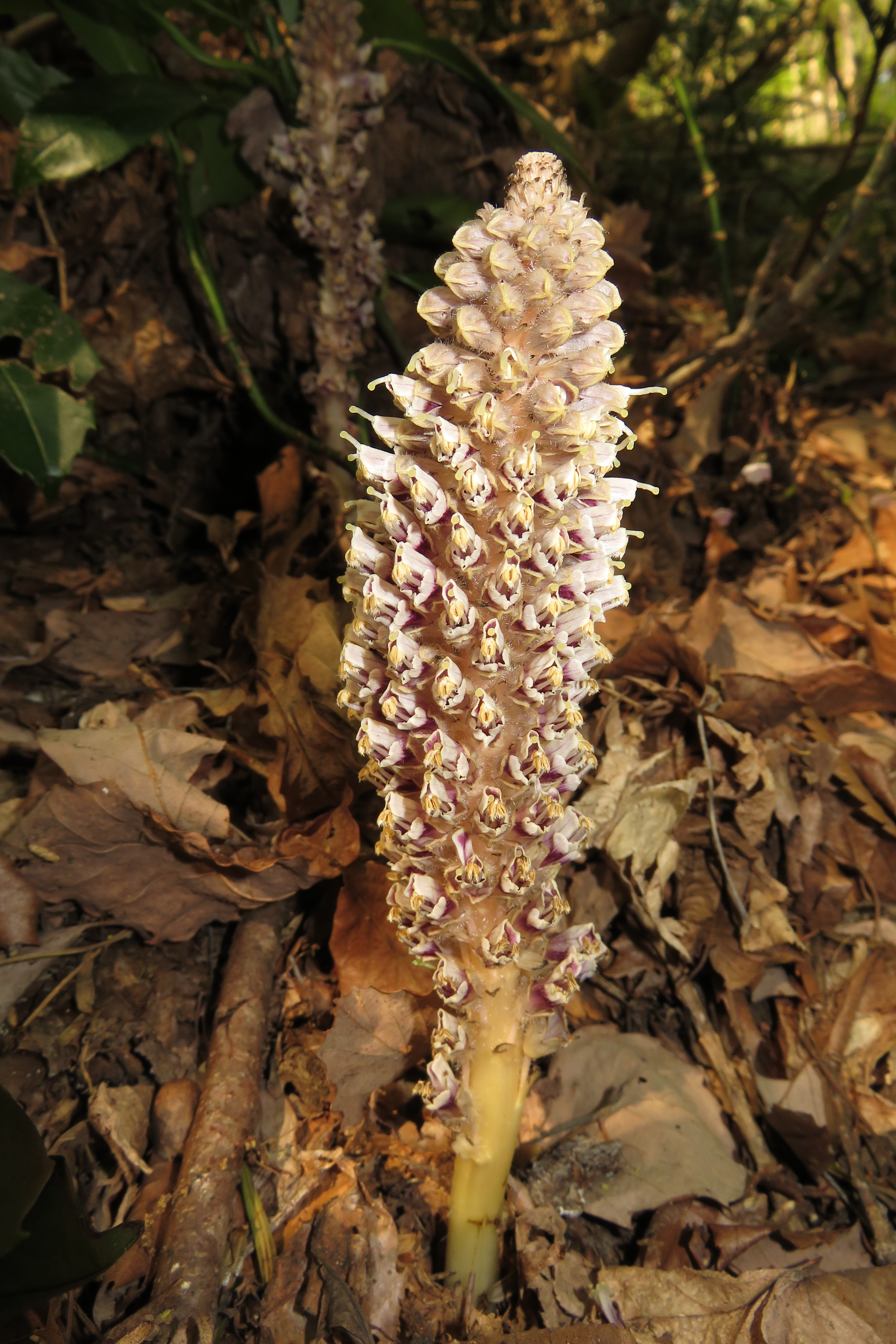 Lathraea japonica, Aizu area, Fukushima pref., Japan